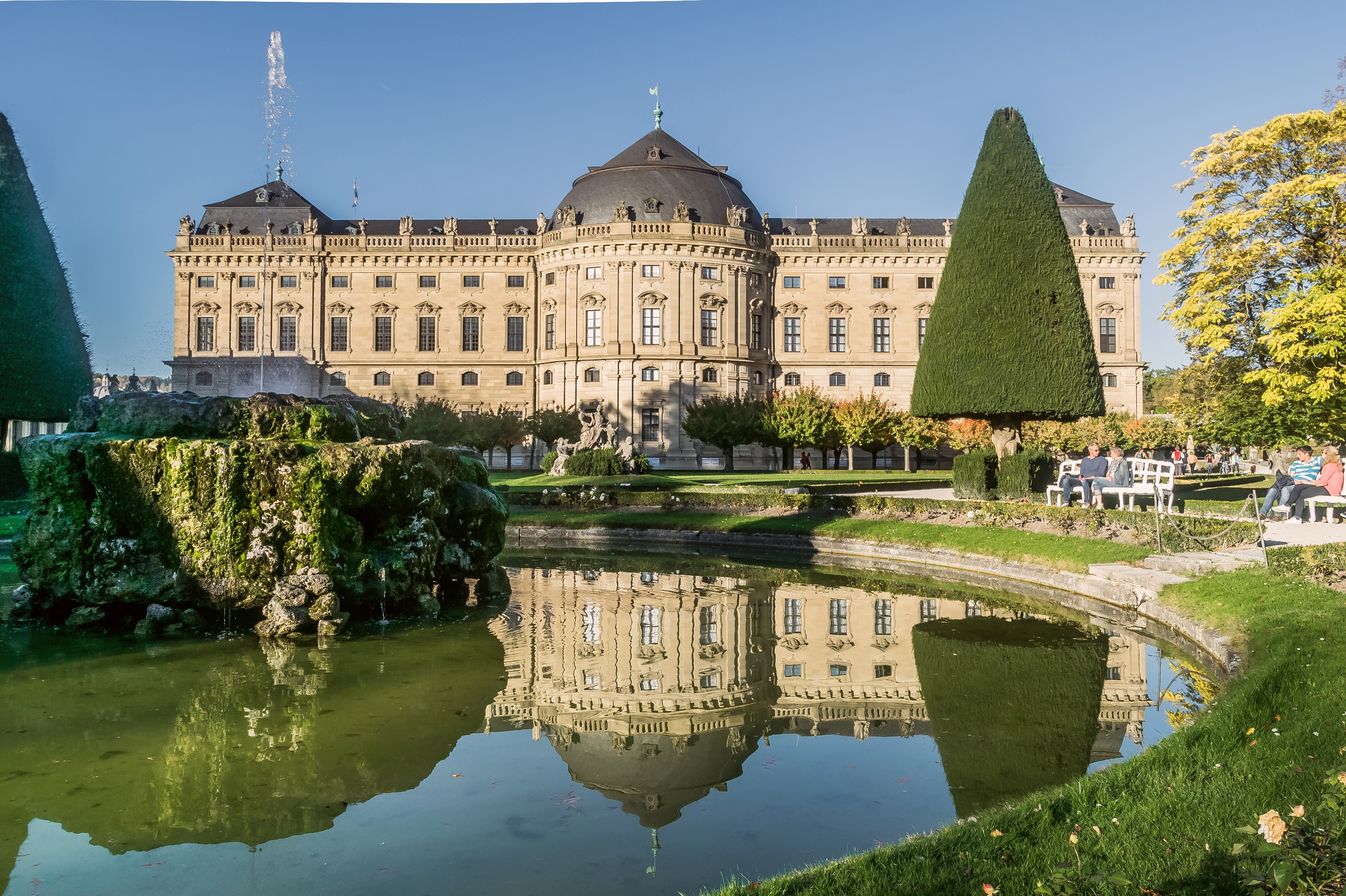 South facade of the Würzburg Residence, Bavaria, GermanyThis is a photograph of an architectural monument.